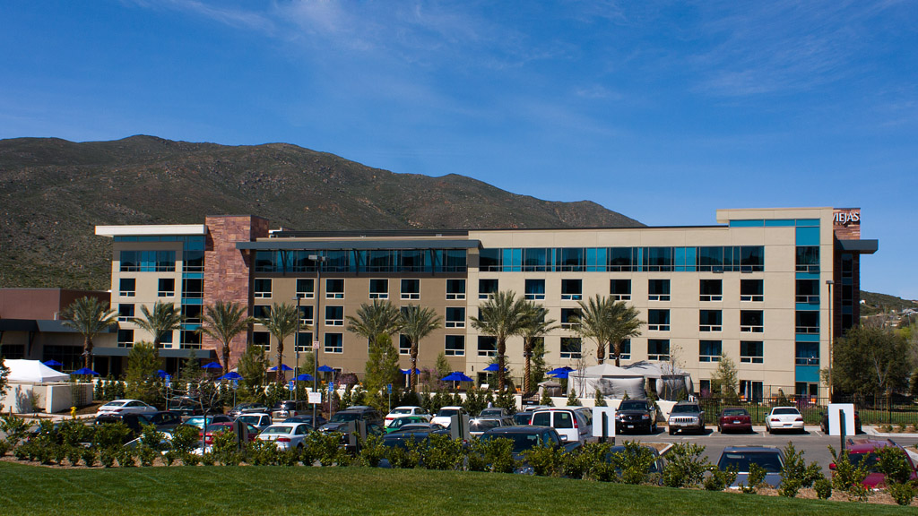 Viejas Casino in Alpine California owned and operated by the Viejas Band of Kumeyaay Indians